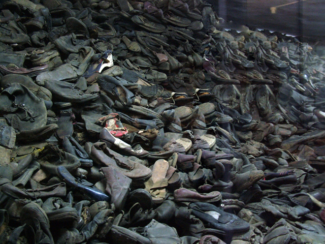 Journey To Poland